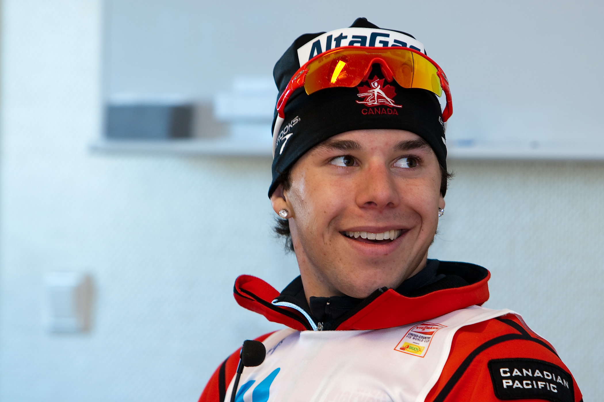 Alex Harvey at the press conference after taking 3rd place in the mens 50km in Trondheim, Norway.